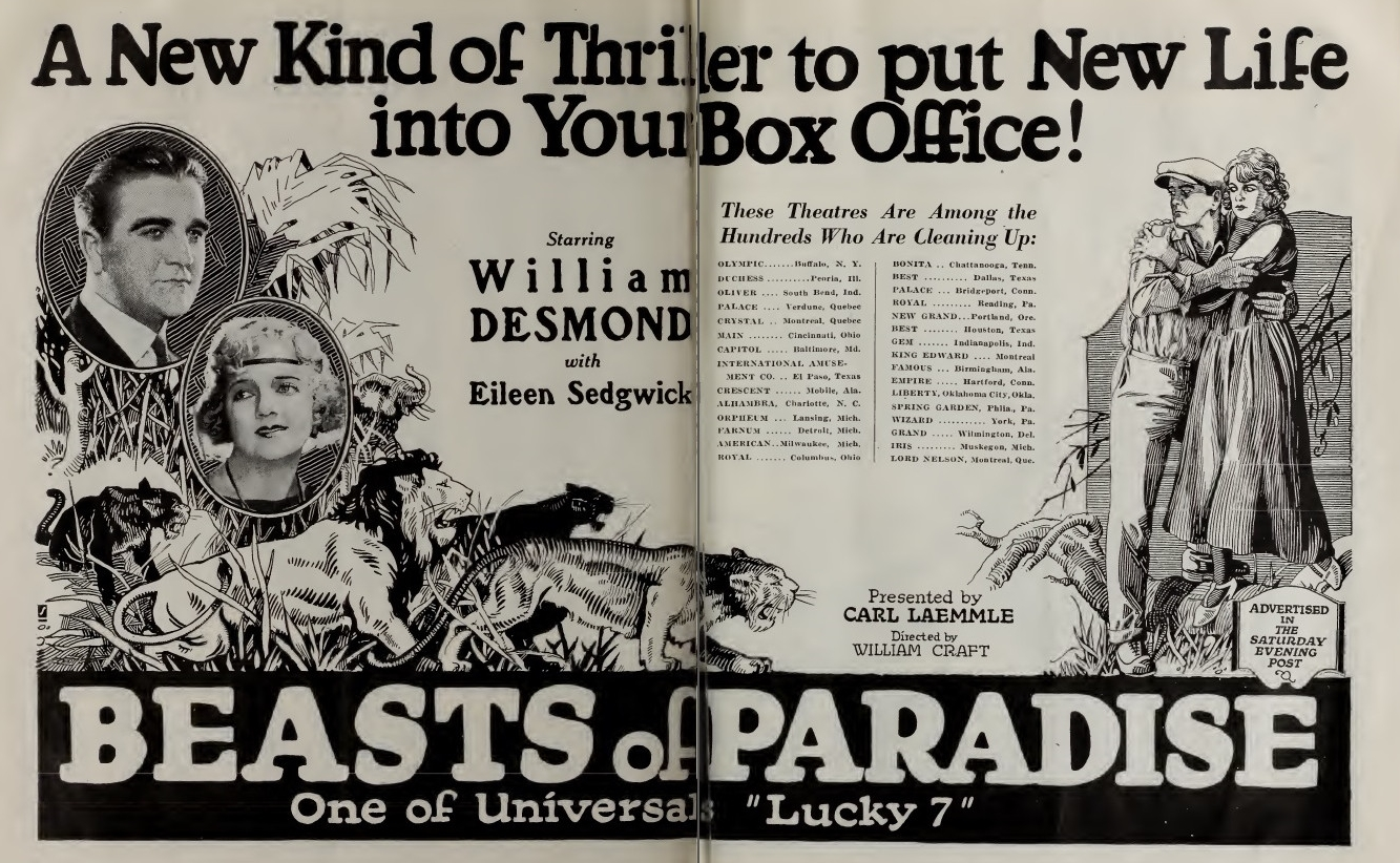 Advertisement for the American silent film serial Beasts of Paradise (1923). Other information cropped from pages 32-33